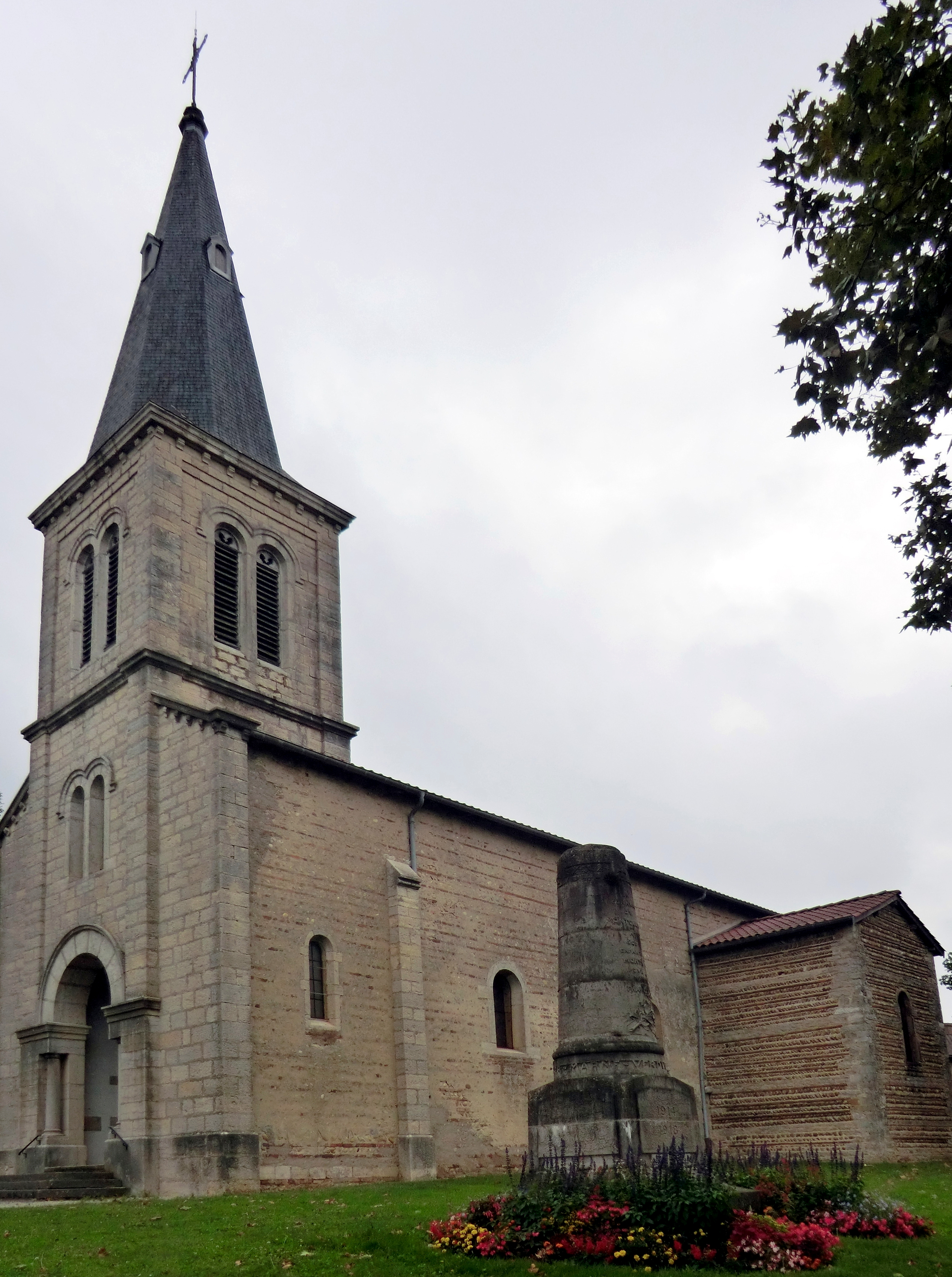 Church and war memorial of Le Montellier.